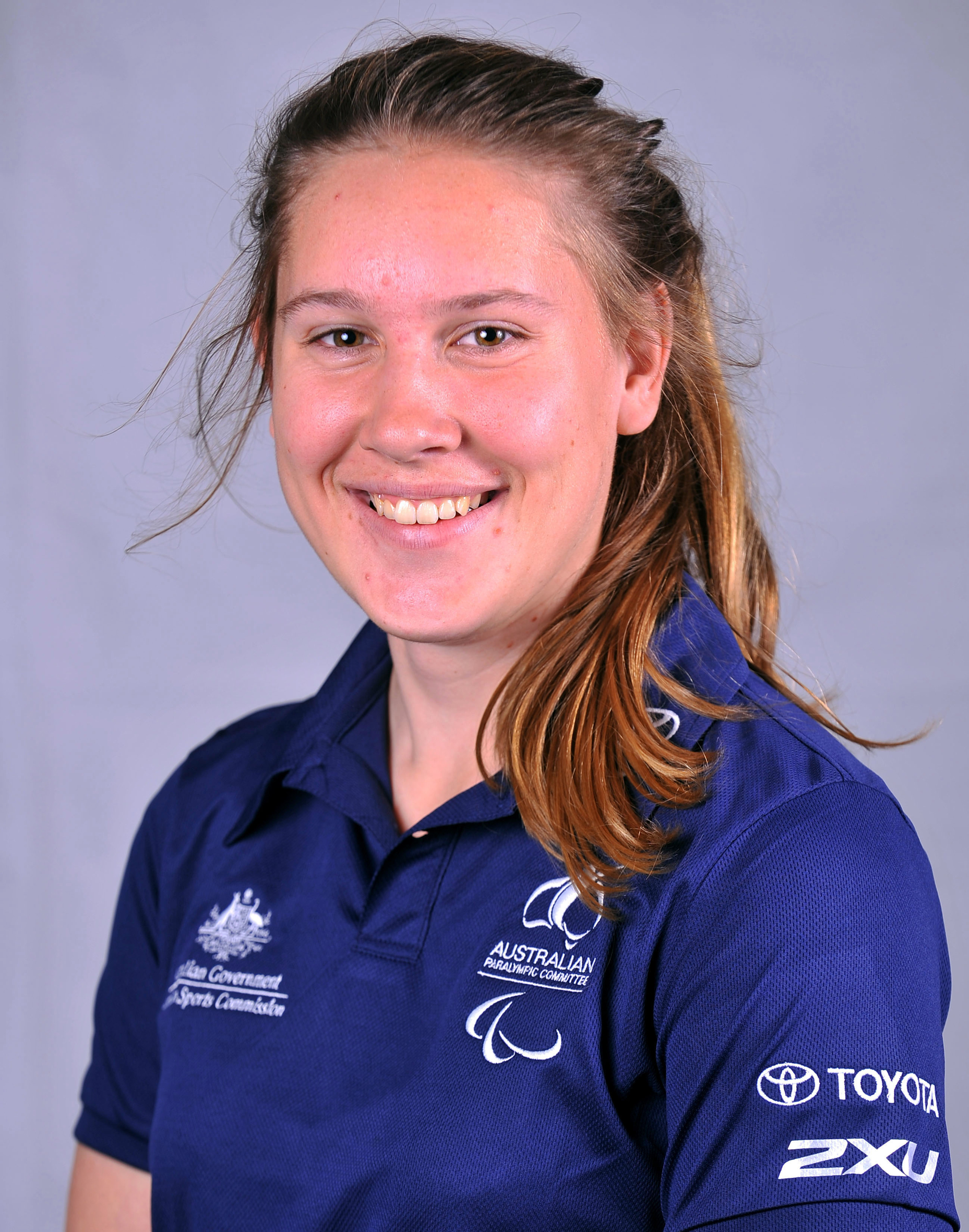 Portrait of Australian athlete Georgia Beikoff, 2012 Australian Paralympic (shadow) Team athlete